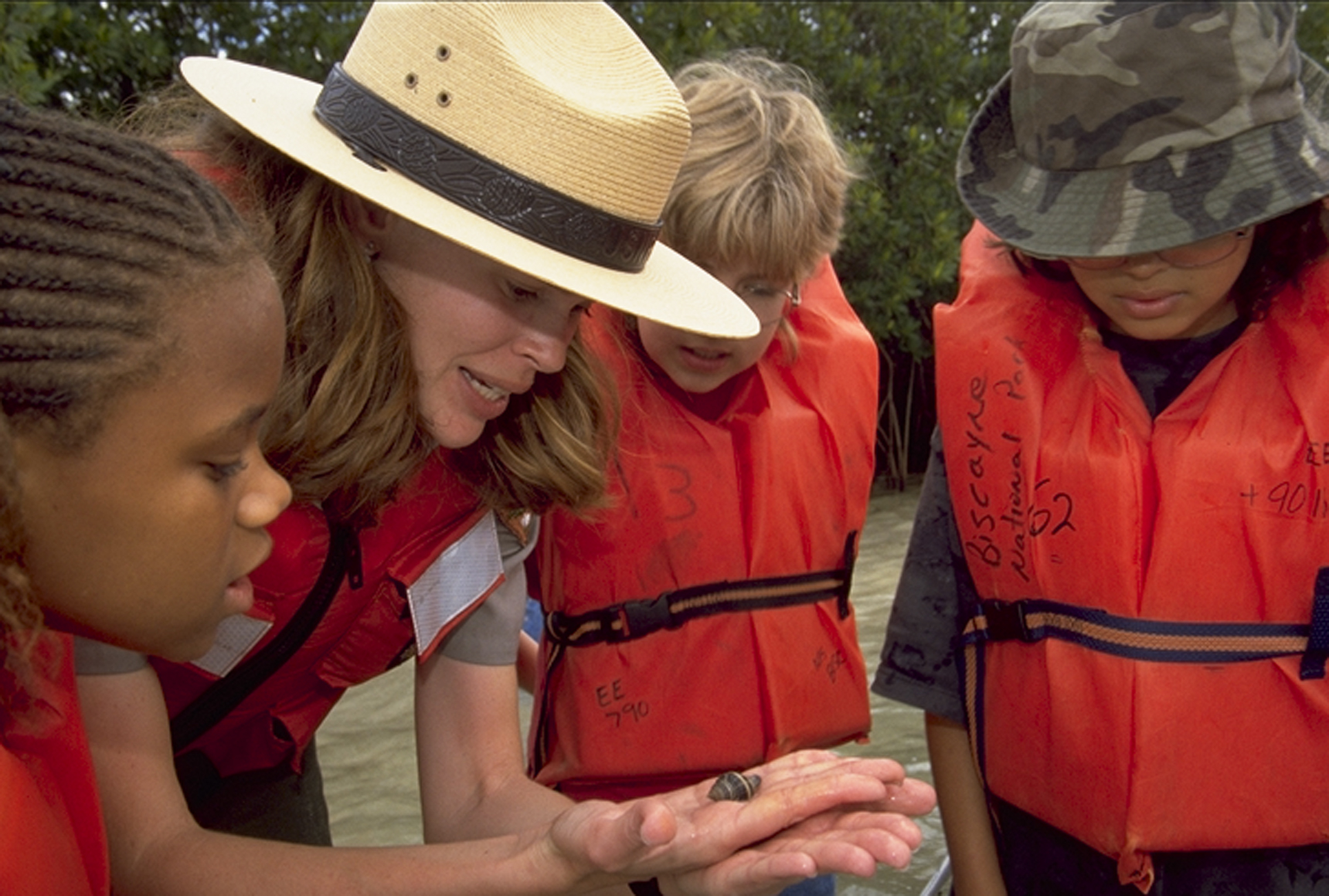 Location Biscayne National Park Description Within sight of downtown Miami, yet worlds away, Biscayne protects a rare combination of aquamarine waters, emerald islands, and fish-bejeweled coral reefs. Here too is evidence of 10,000 years of human history, from pirates and shipwrecks to pineapple farmers and presidents. Outdoors enthusiasts can boat, snorkel, camp, watch wildlife…or simply relax in a rocking chair gazing out over the bay.